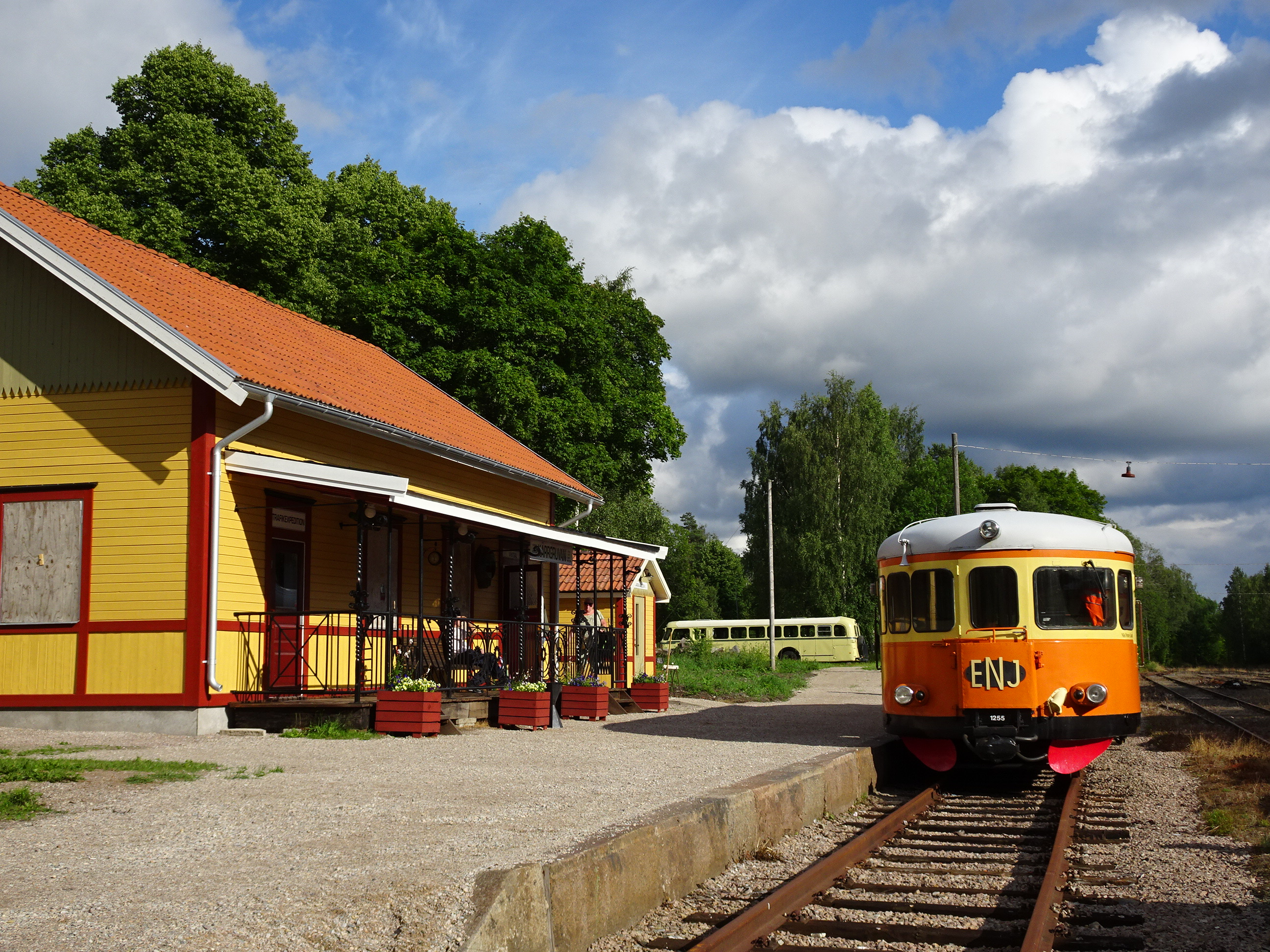 The newly built railway station for the Engelsbergs-Norbergs railway.